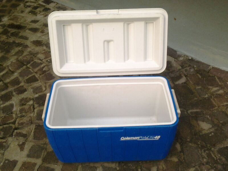 Large cooler box